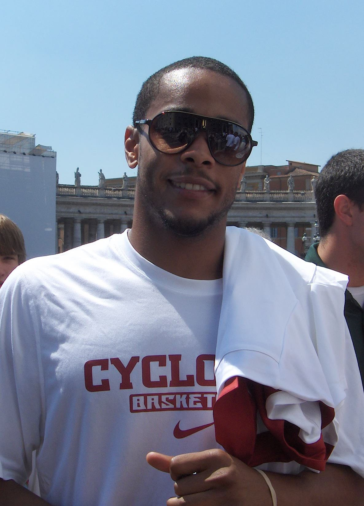 Chris Allen Iowa State, taken in the Vatican City, Italy while the team was on their Italian tour